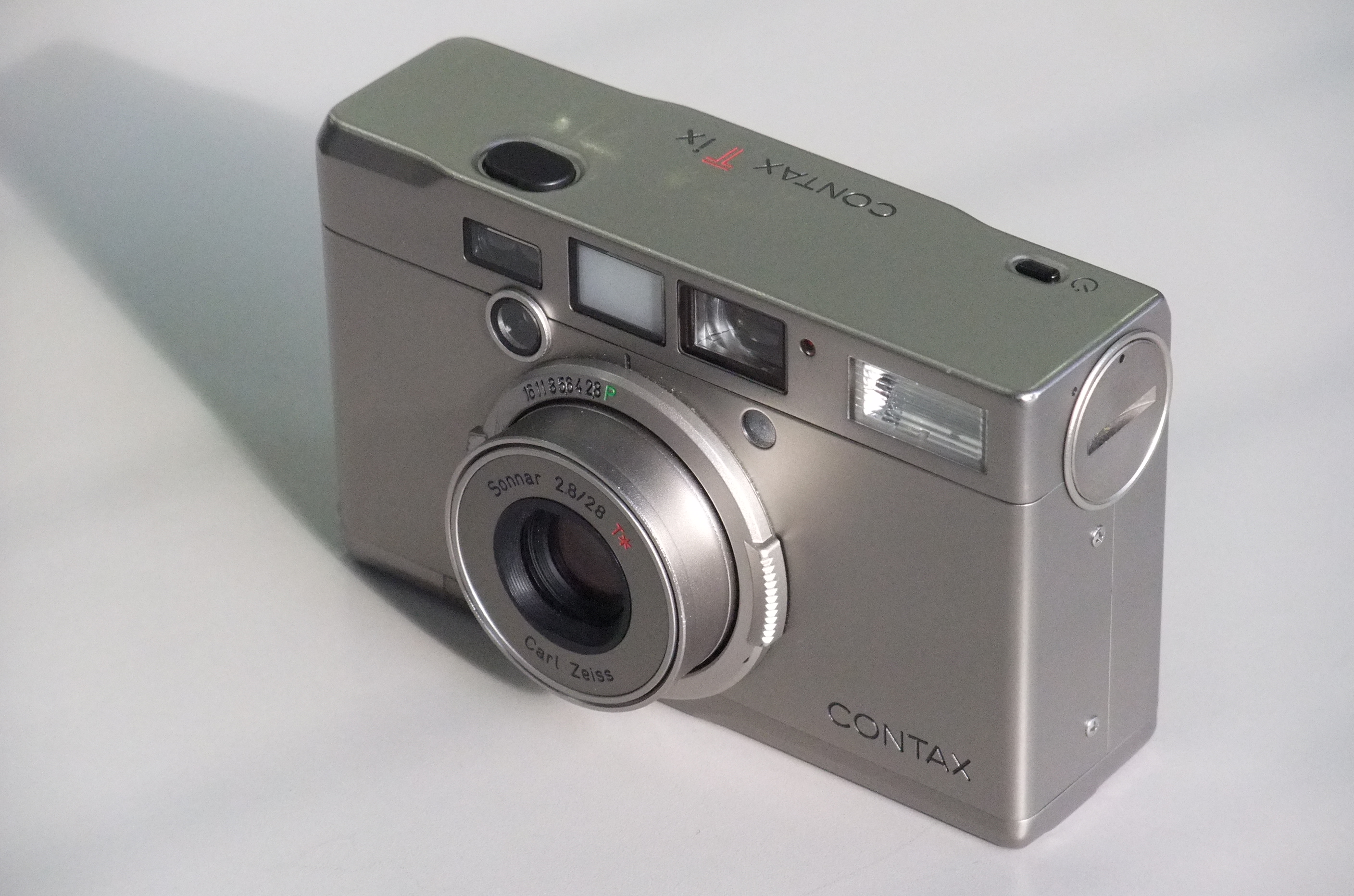 Kyocera Contax Tix